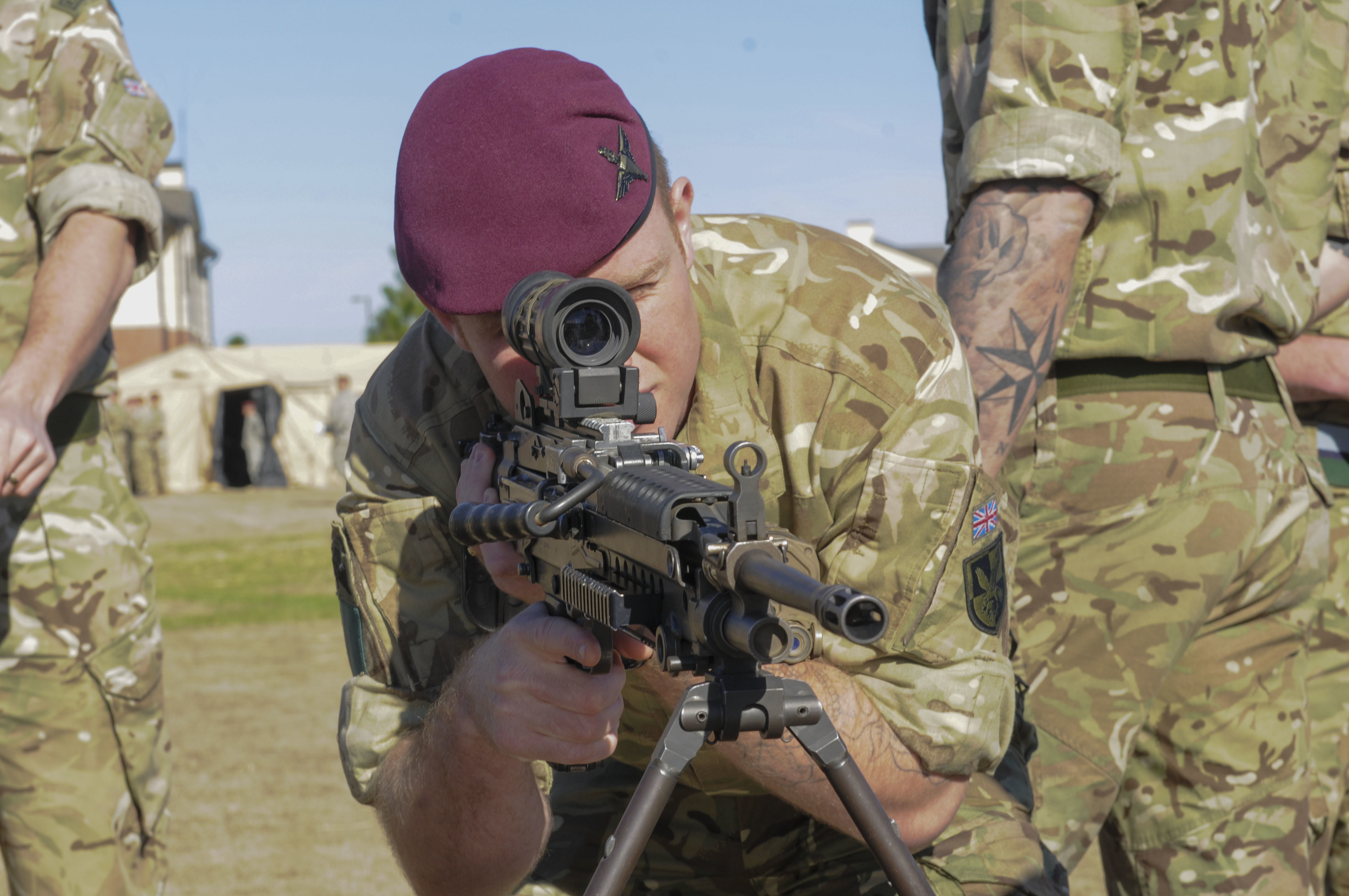 A paratrooper assigned to the British 16 Air Assault Brigade familiarizes himself with a M249 squad automatic weapon during the 2nd Brigade Combat Team, 82nd Airborne Division demonstration day on Fort Bragg, N.C., March 18, 2015. The event fostered understanding of the U.S. Airborne Brigade’s unique equipment and capabilities through a combination of static displays and briefings. In April, the two units will conduct the largest US-UK Combined-Joint Operational Access Exercise held on Fort Bragg in the past 20 years. (82nd Airborne Division photo by Sgt. Eliverto V. Larios/Released)